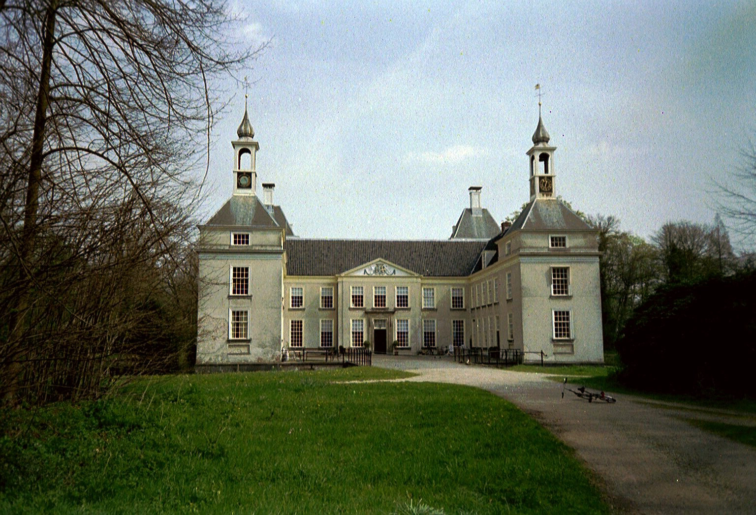 Huis te Warmond, municipality Teylingen, the Netherlands